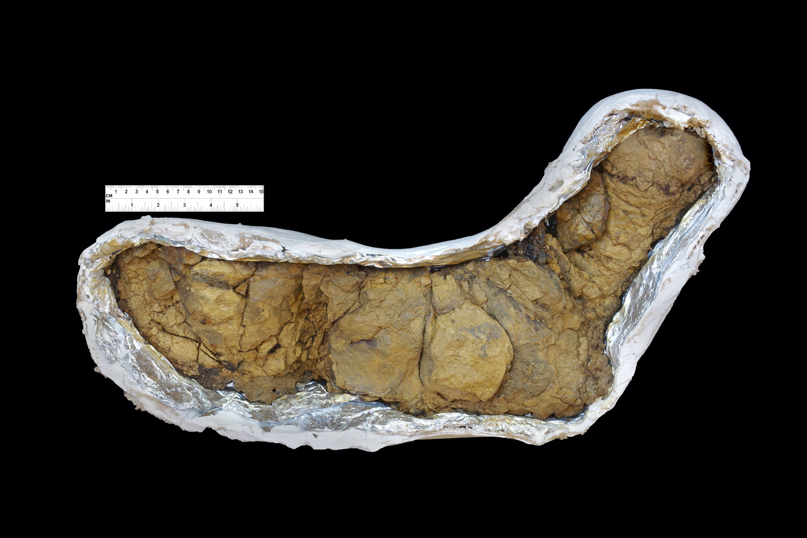 Fossil feces from a carnivorous dinosaur - most likely a Tyrannosaurus rex. Discovered in Harding County, South Dakota, USA. This coprolite is 63.5 cm long by 15.25 cm wide (25 inches long by 6 inches long). Scale bar is 15 cm (approximately 6 inches) long. A X-ray fluorescence analysis of this specimen showed the presence of phosphorous and calcium in significant amounts. This coprolite also contains a high percentage of crushed bone inclusions. It is nicknamed “Barnum” after Paleontologist, Barnum Brown, who discovered the first Tyrannosaurs rex.